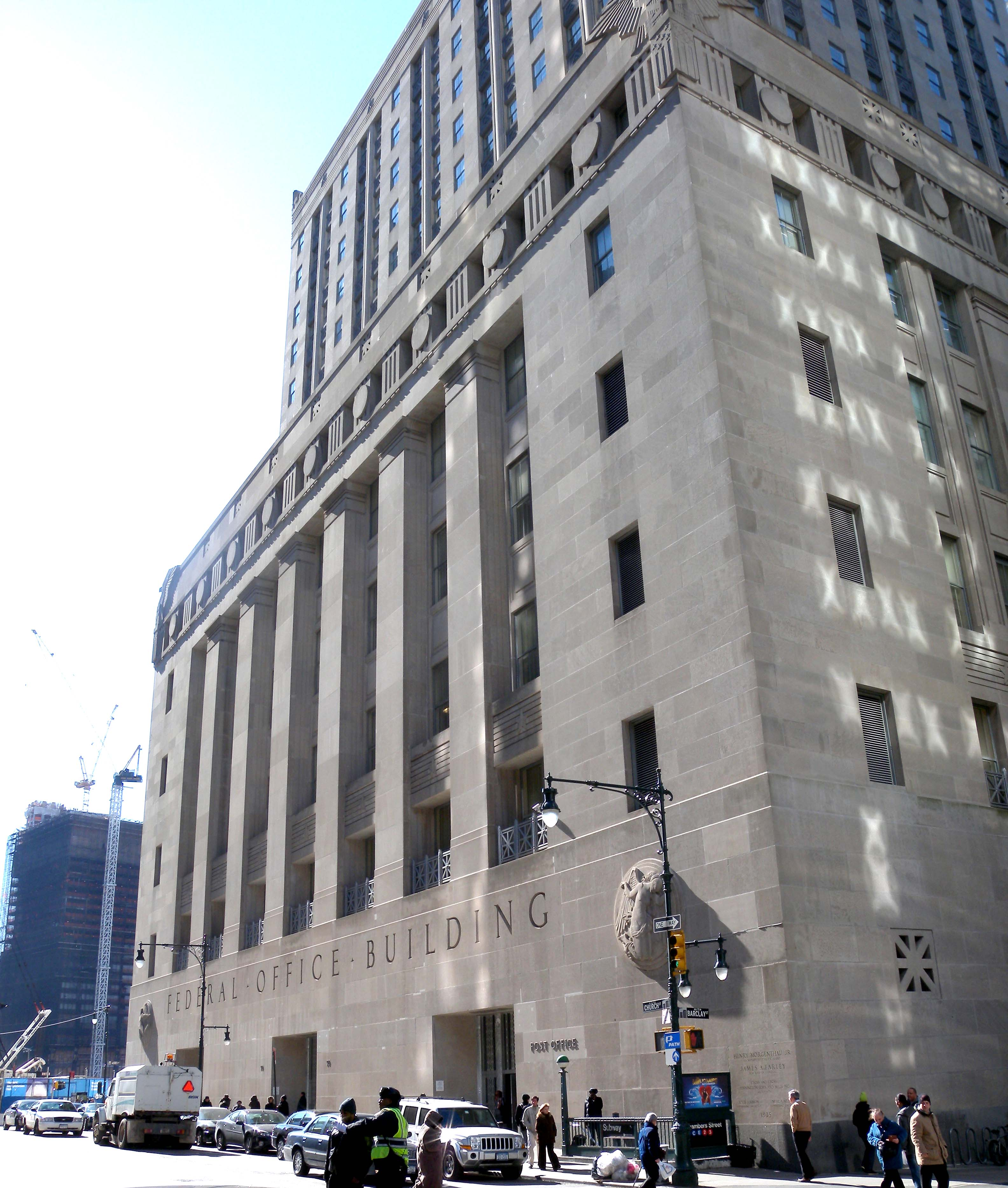 Looking southwest across Barclay and Church Streets at 90 Church Street Post Office serving en:10048 (ZIP code) and Federal Office Building on a cloudy midday.